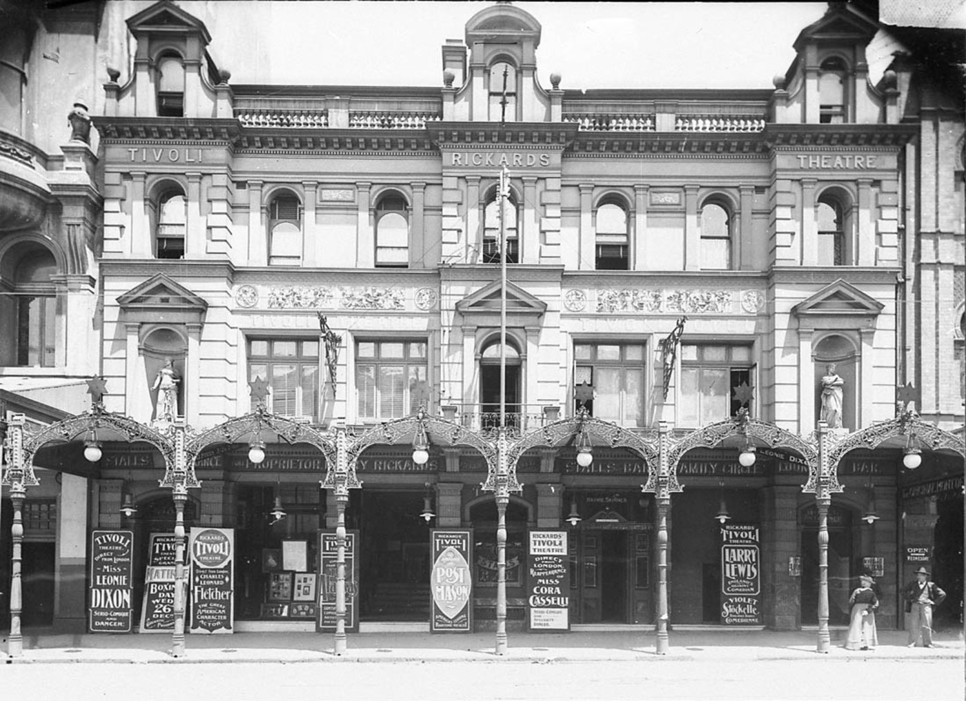 Facade of the former Tivoli Theatre, 79-83 Castlereagh Street in Sydney.